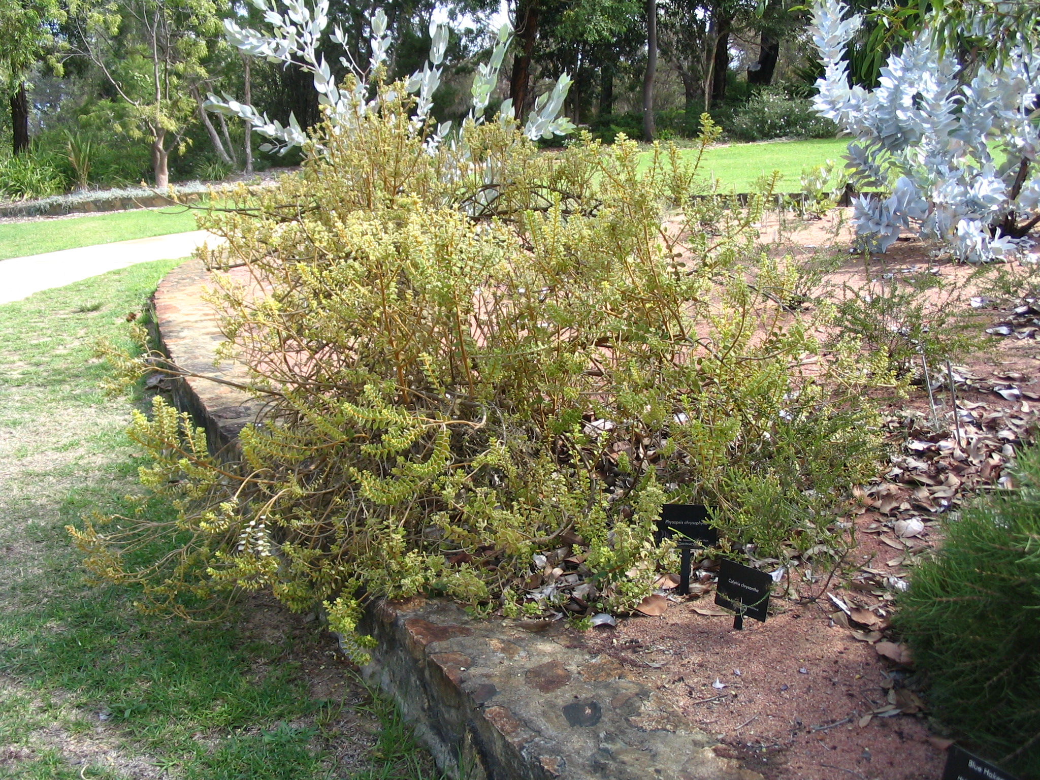 Physopsis chrysophylla plant in Kings Park, Perth, Australia.